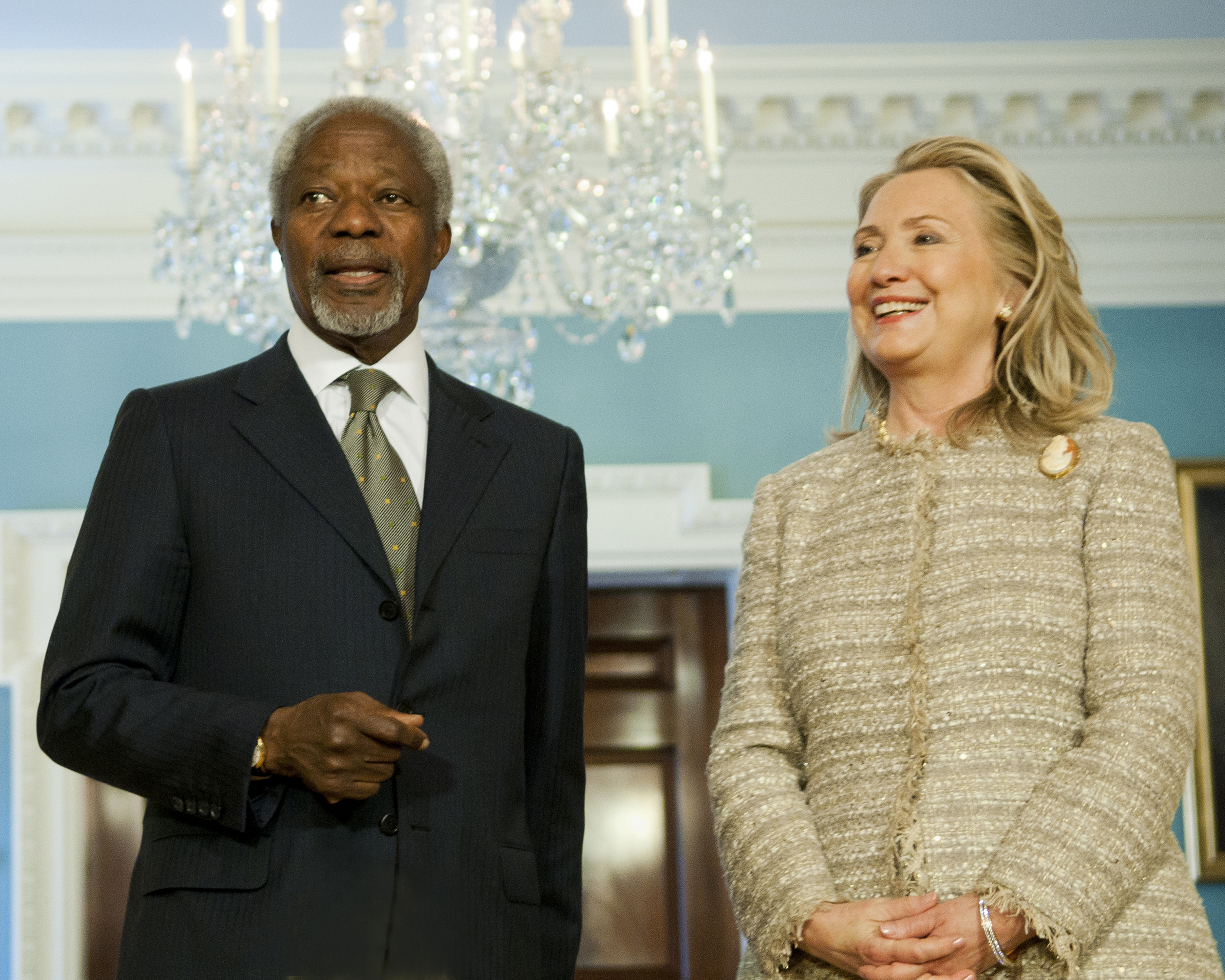 U.S. Secretary of State Hillary Rodham Clinton meets with UN-Arab League Joint Special Envoy for Syria Kofi Annan at the U.S. Department of State in Washington, D.C., on June 8, 2012. [State Department photo/ Public Domain]